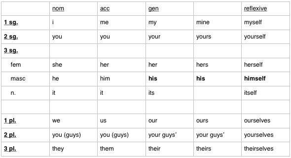 a table, using pages, that shows the case forms of english pronouns